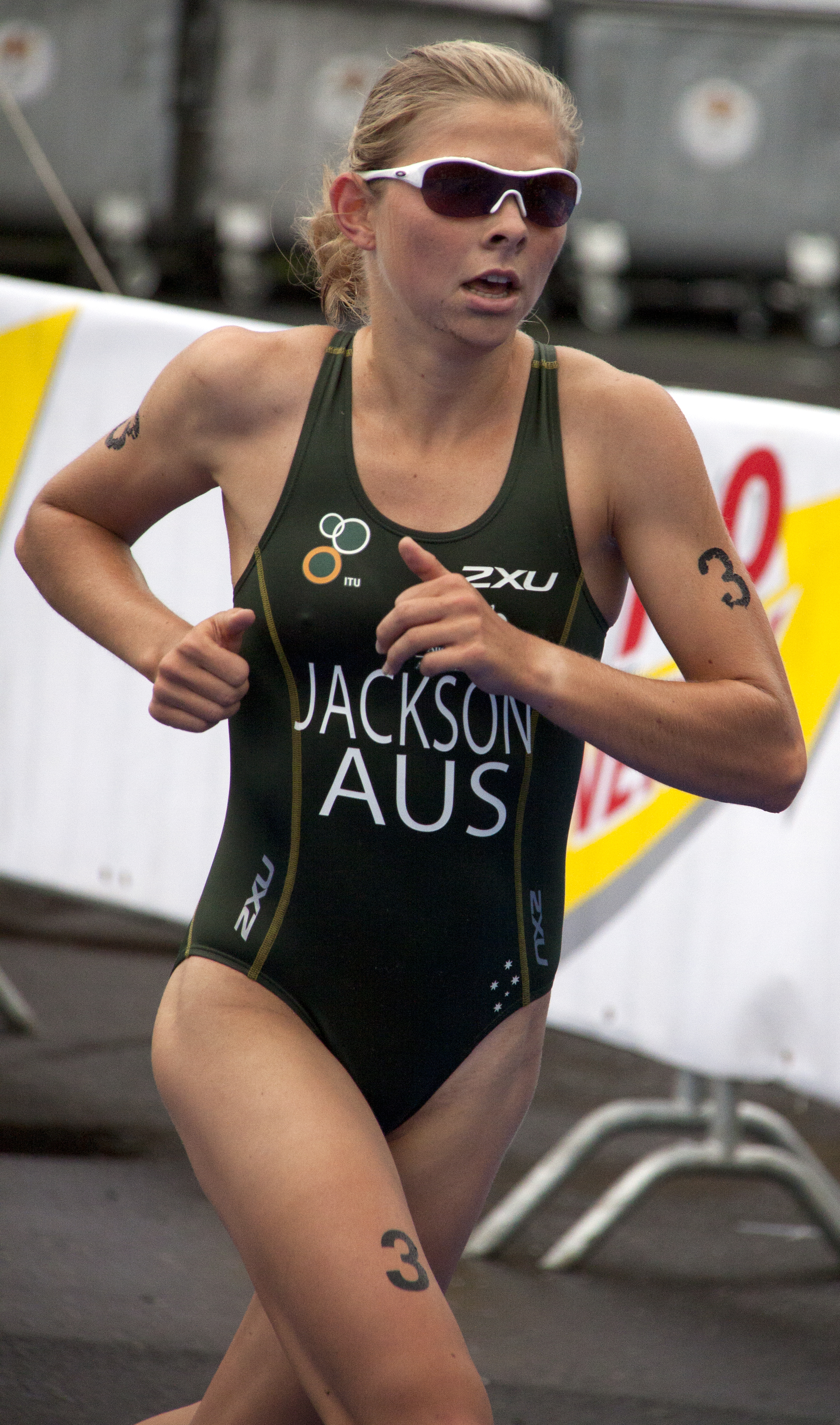 Emma Jackson at the World Championship Series triathlon in Budapest, Grand Final, U23 Championships.